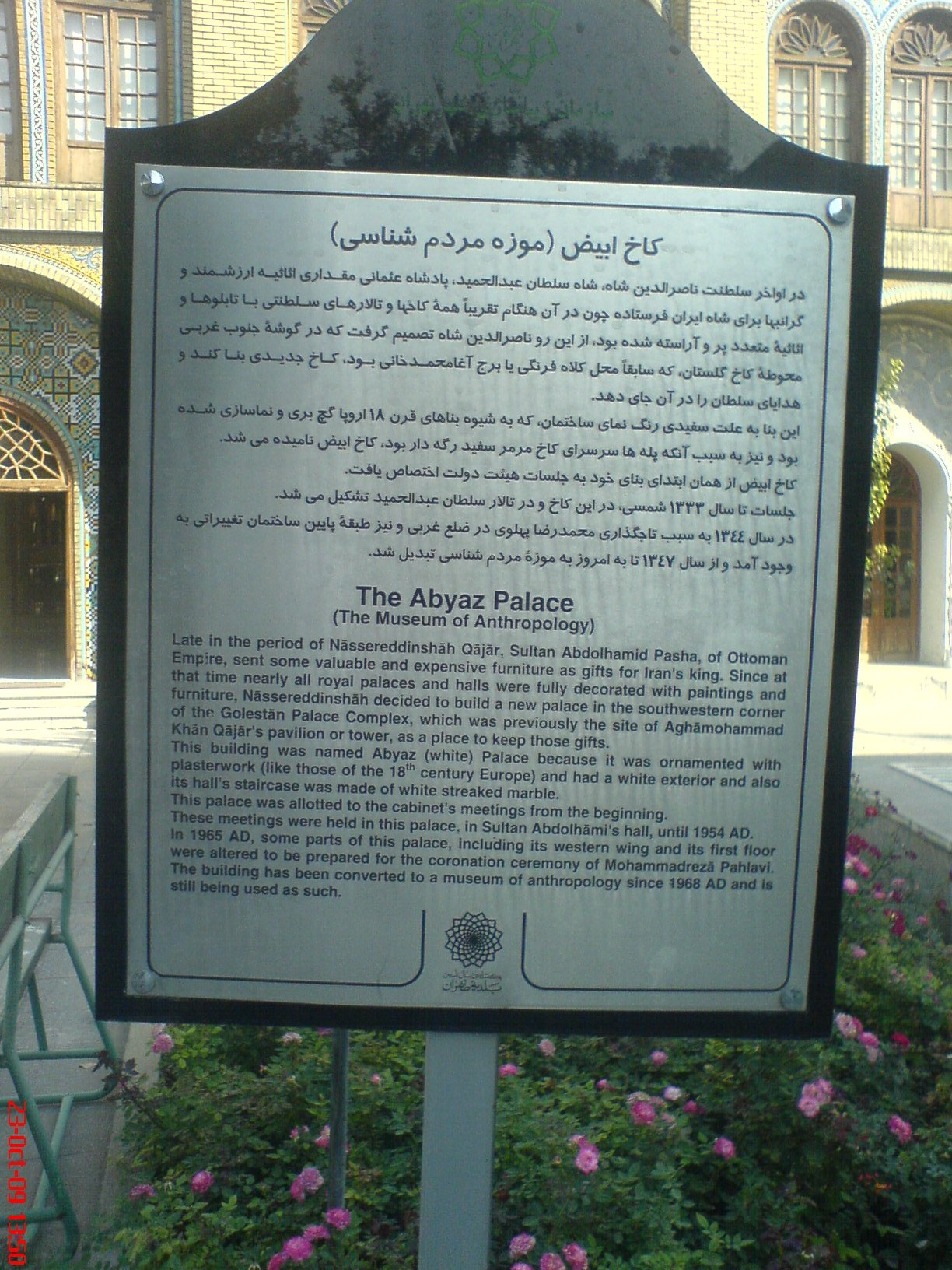 Description of Abyaz palace in Golestan palace - Tehran / Iran